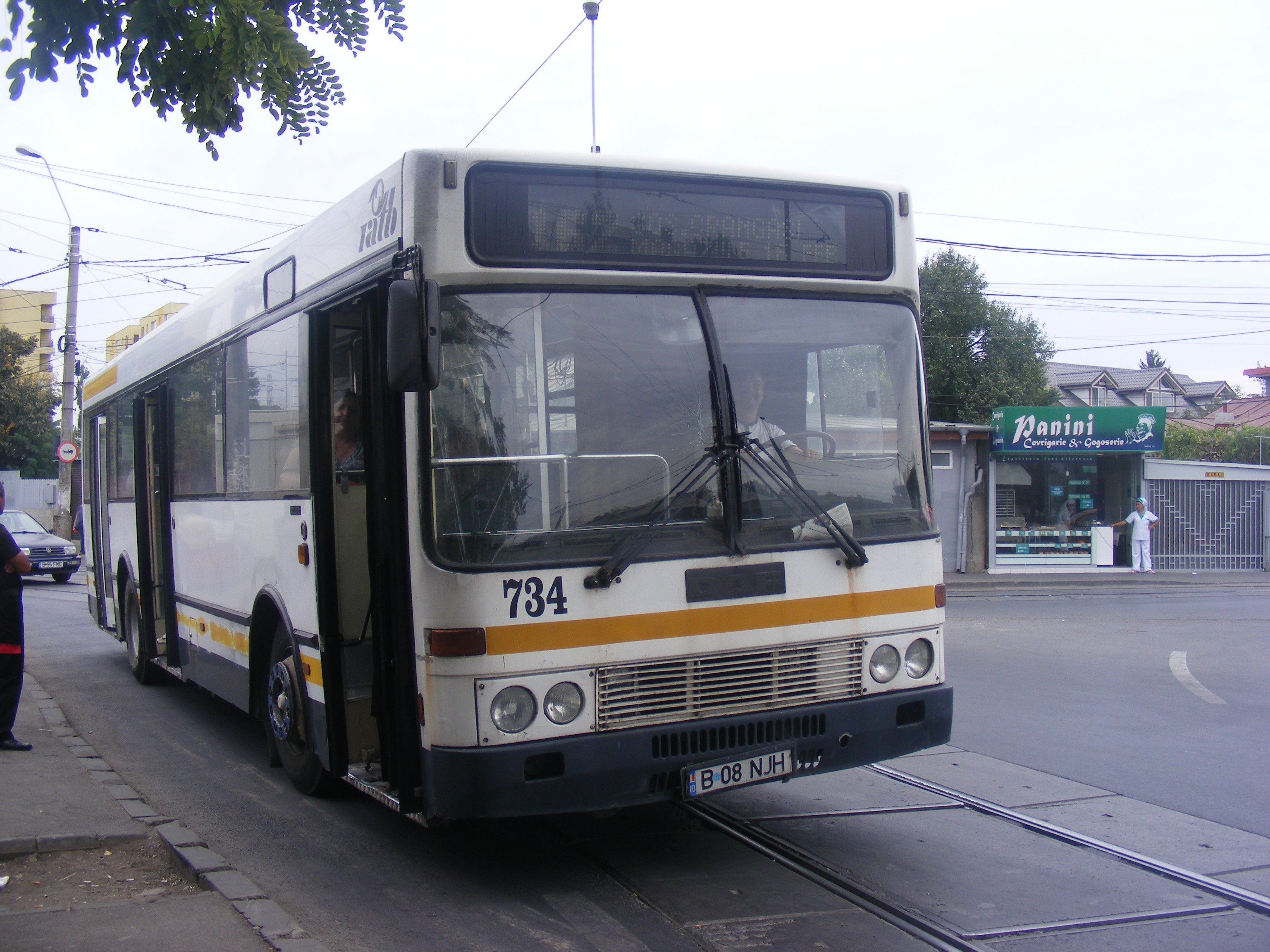 DAF SB220 bus number 734 on line 162 in Giulesti. This bus was retired in 2013, ending the era of the 1990s RATB buses. This has a DAF chassis but it is built with spanish Hispano Carrocera bodywork.